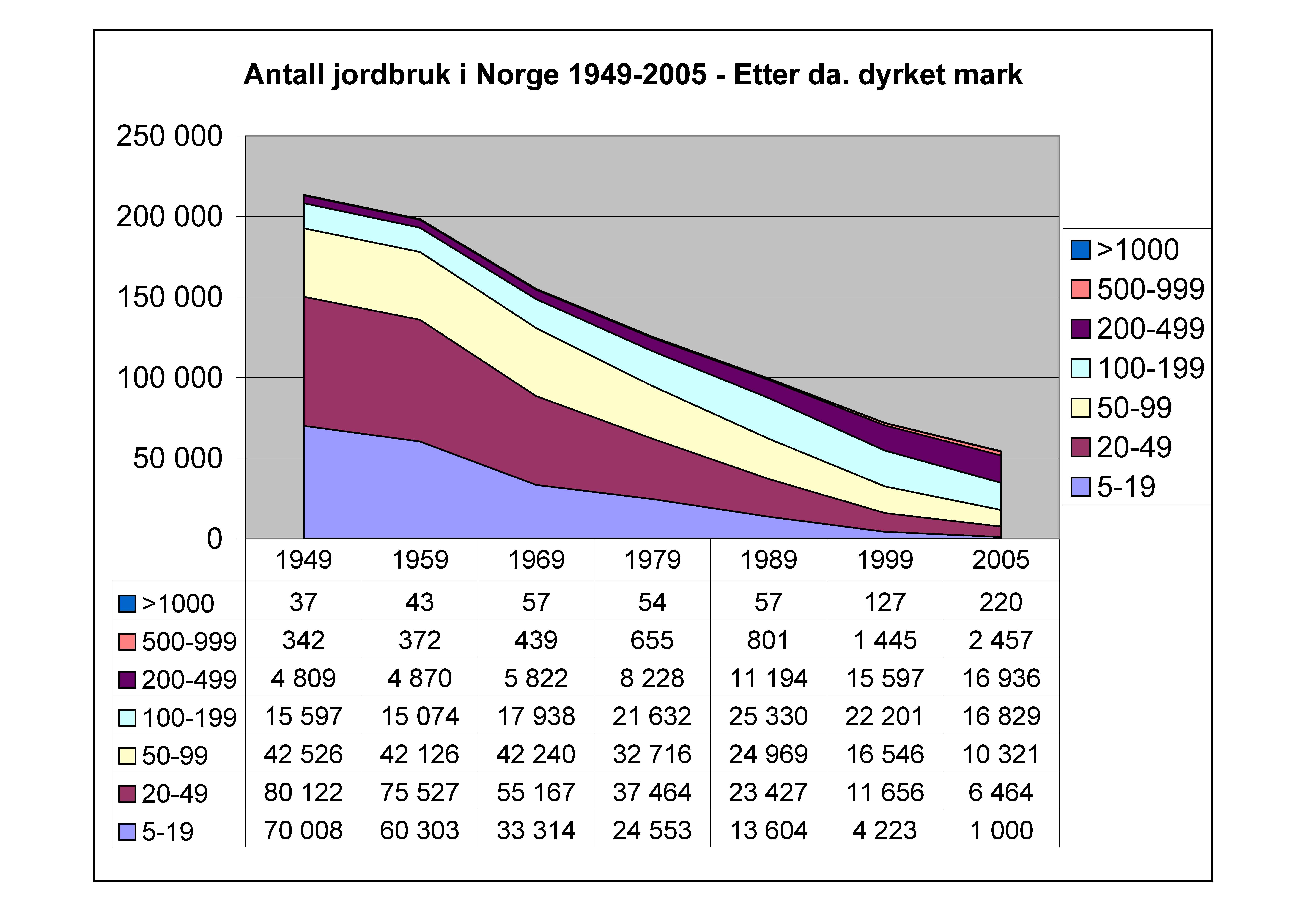 Norwegian agriculture - Farms 1949-2005 - Own work based on SSB-statistics.